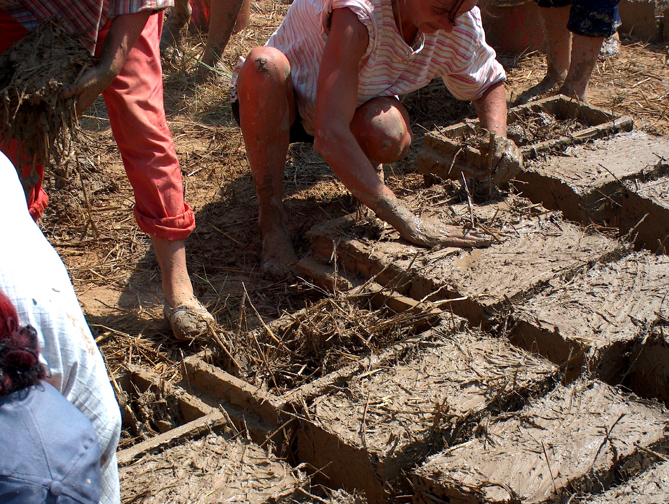 Danube Delta: making construction material